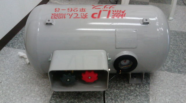 A LPG tank used for car fuel conversion. The tank complies with high pressure gas safety regulations in Japan. "Expiration date" is written with red paint, and if the date is over, we cannot charge gas.